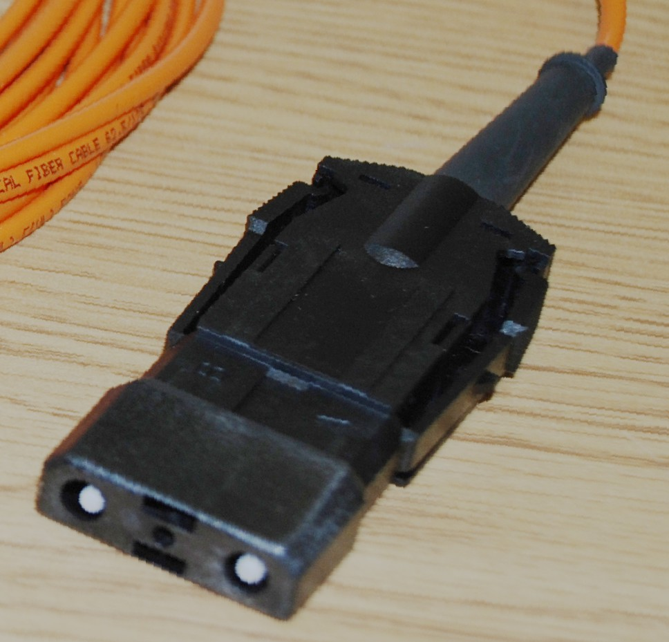 ESCON connector, picture adopted from ESCON_cable.JPG!